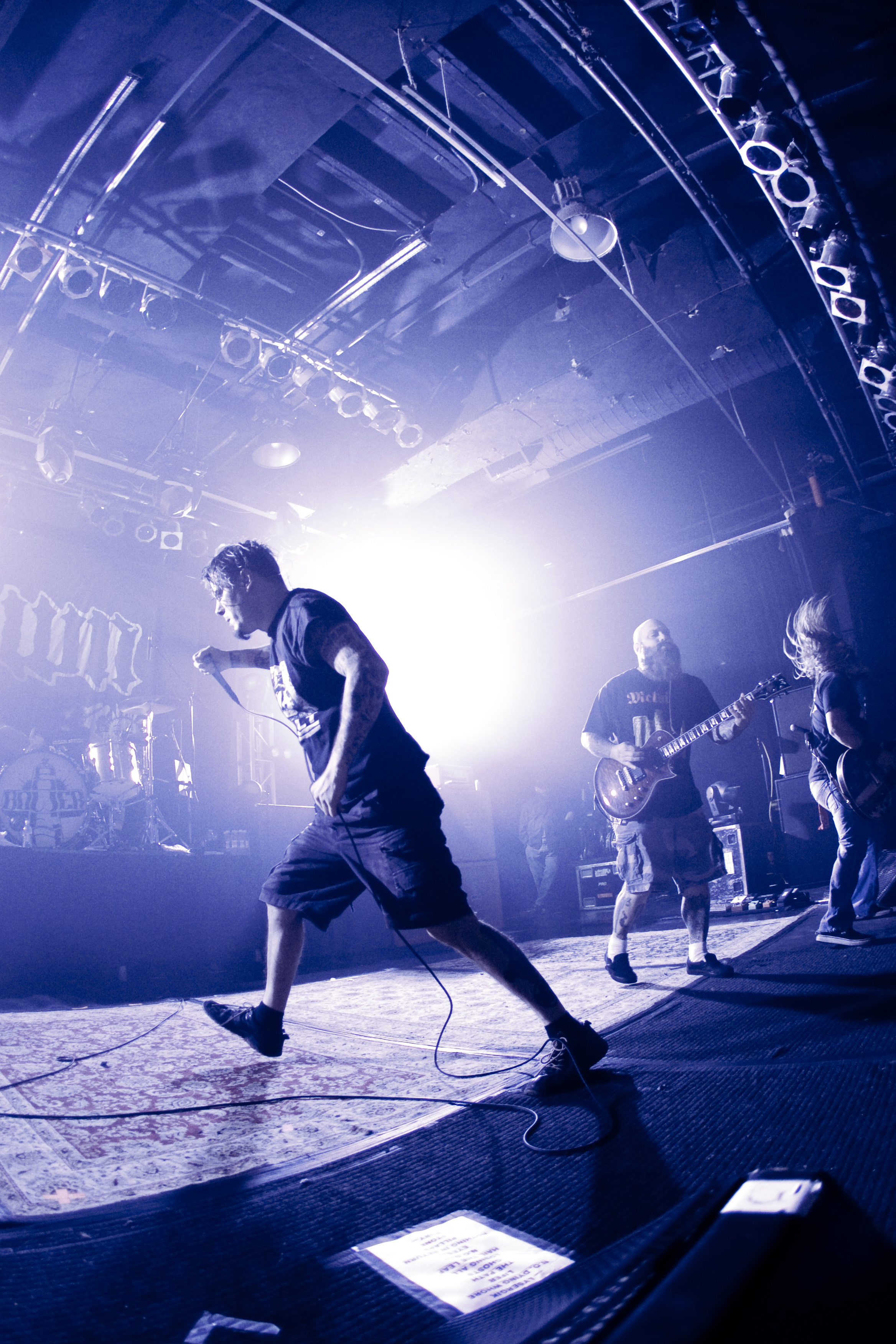 Down live at the Kool Haus in Toronto, September 18 2009. (L-R) Phil Anselmo, Kirk Windstein, Pepper Keenan